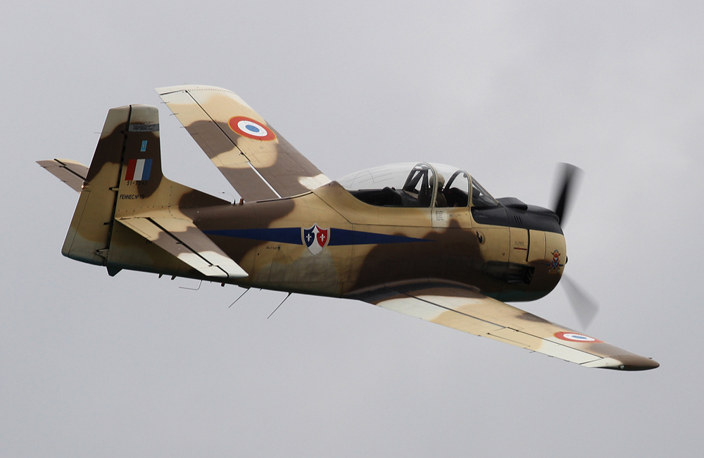 N14113 North American AT-28D Trojan T-28A Fennec ex 51-7545 Fennec No 119 cn 174-398